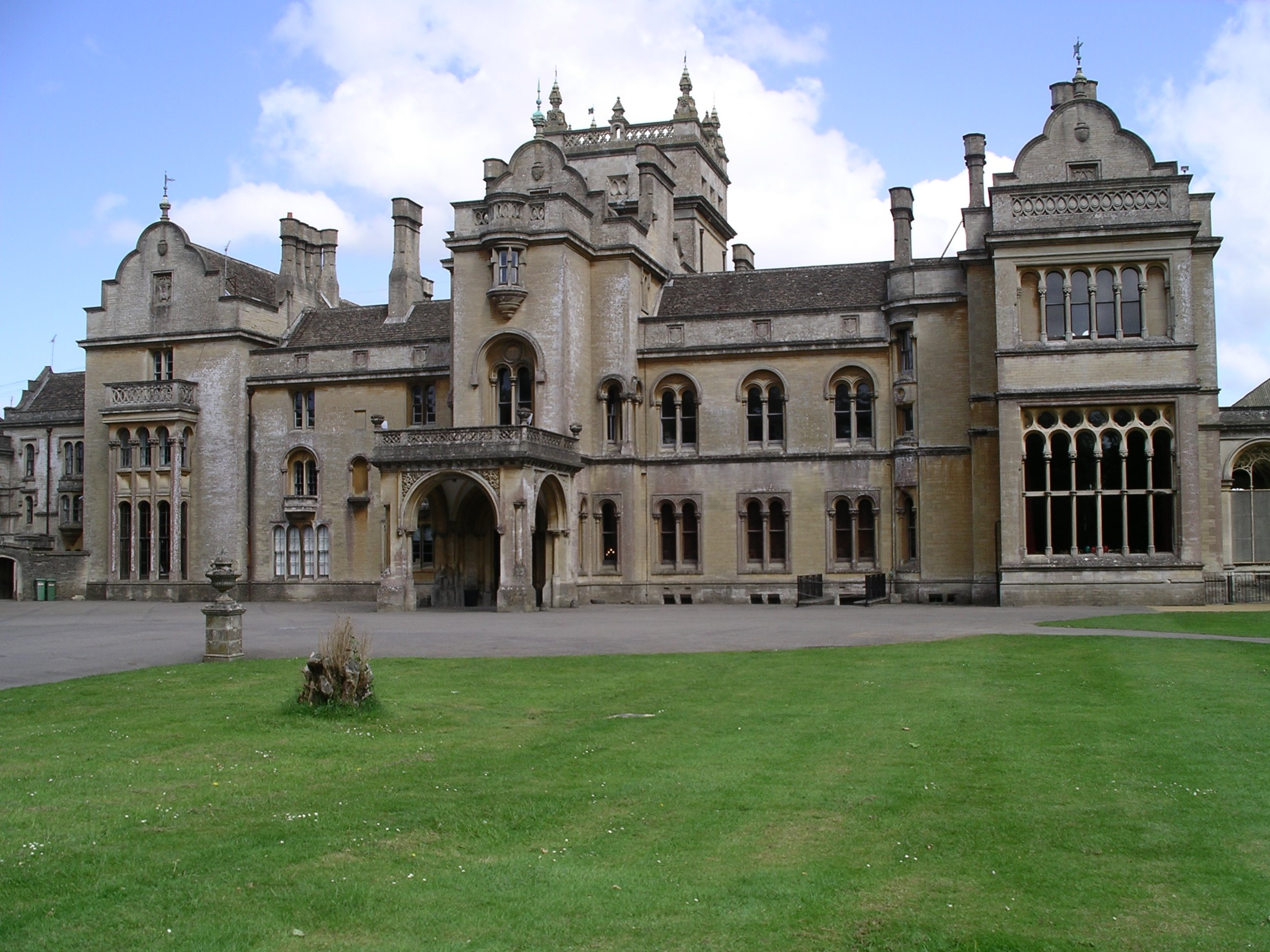 Photo of the main building of Grittleton House School, Grittleton, Wiltshire, England.